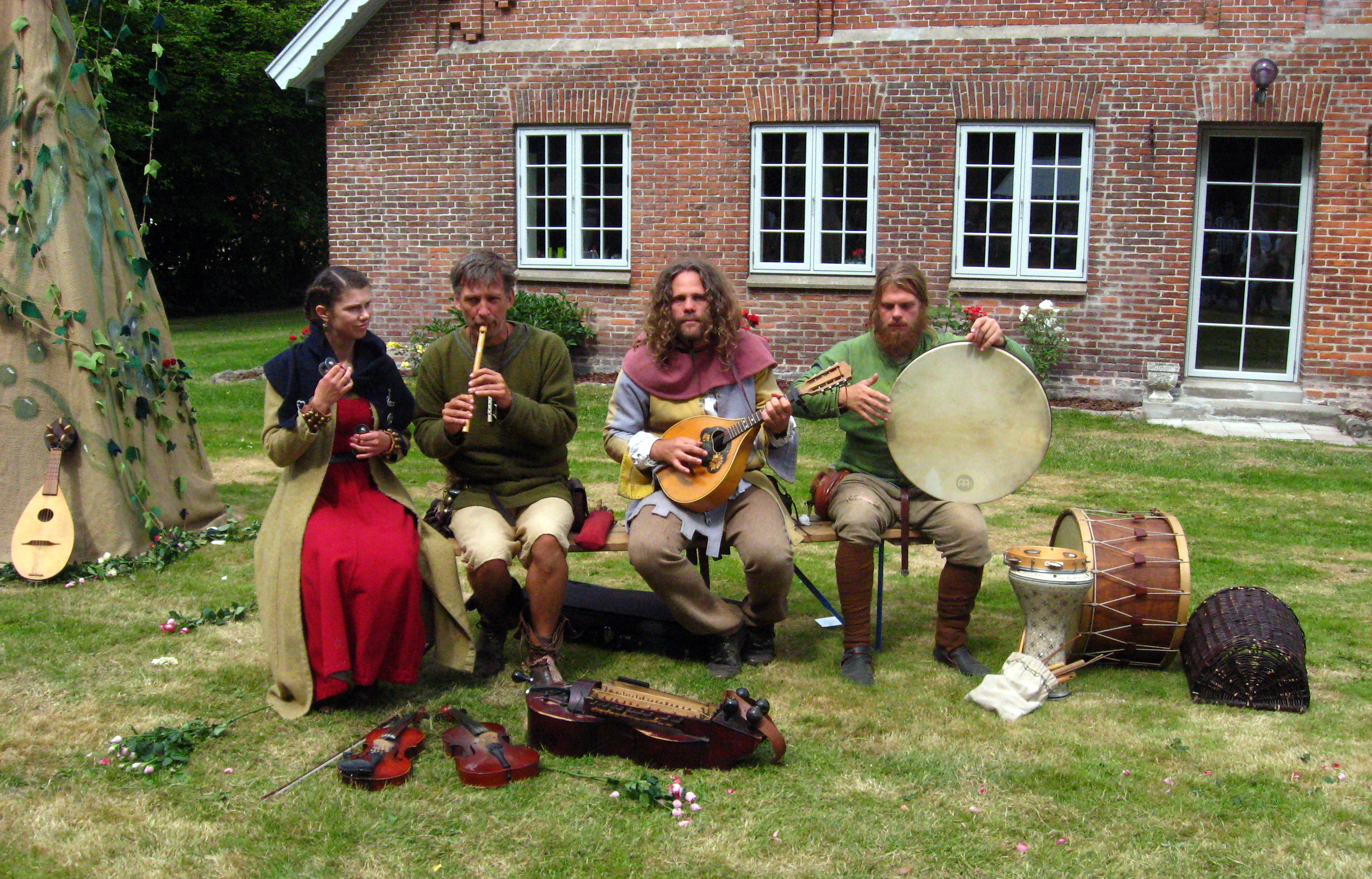 Danish music group Virelai